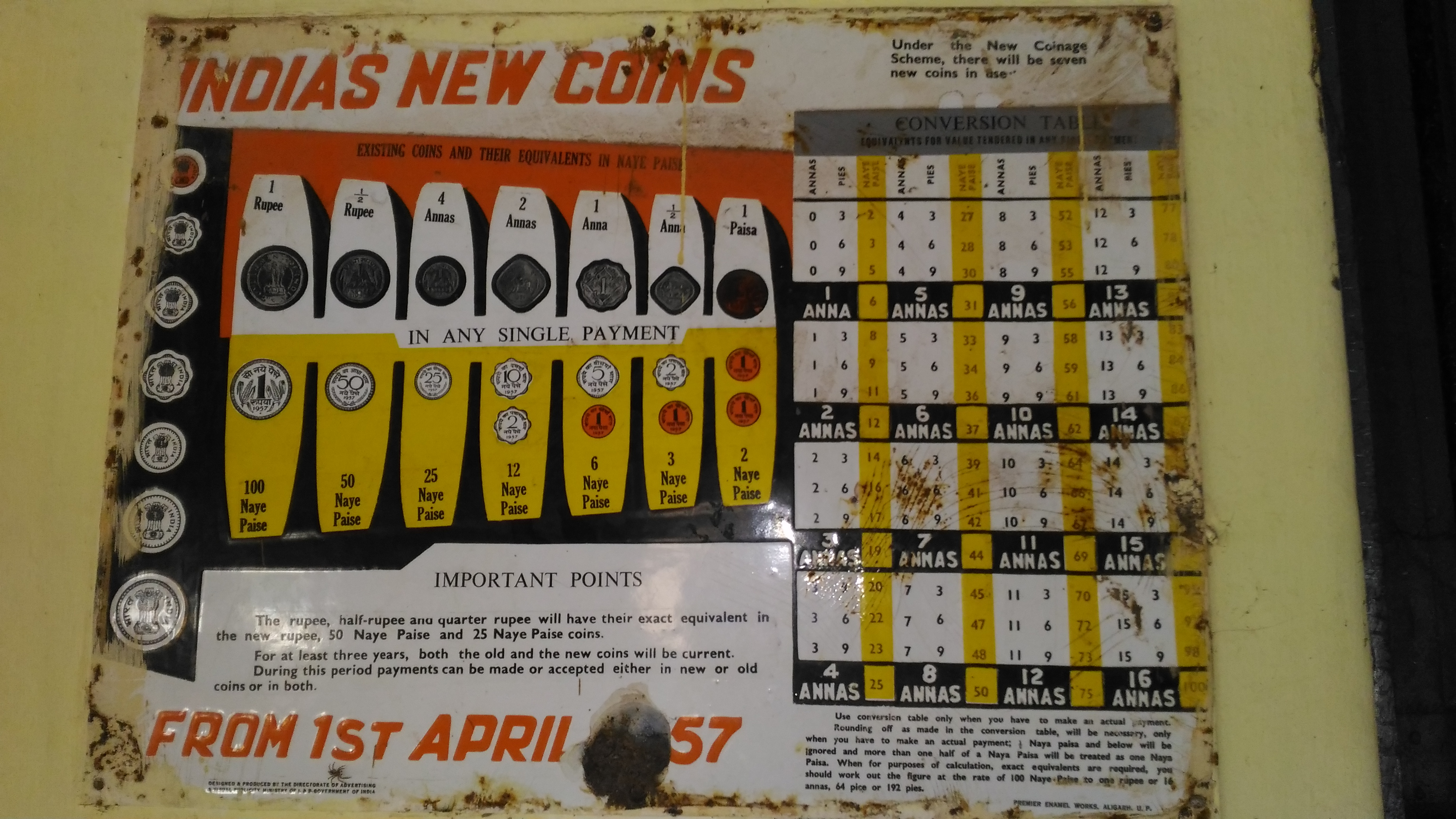 Anaas Paisa Conversion Table. It is seen fixed on the wall of the Old Building of Hosdurg taluk Office, Kanhangad, Kasargod Dt